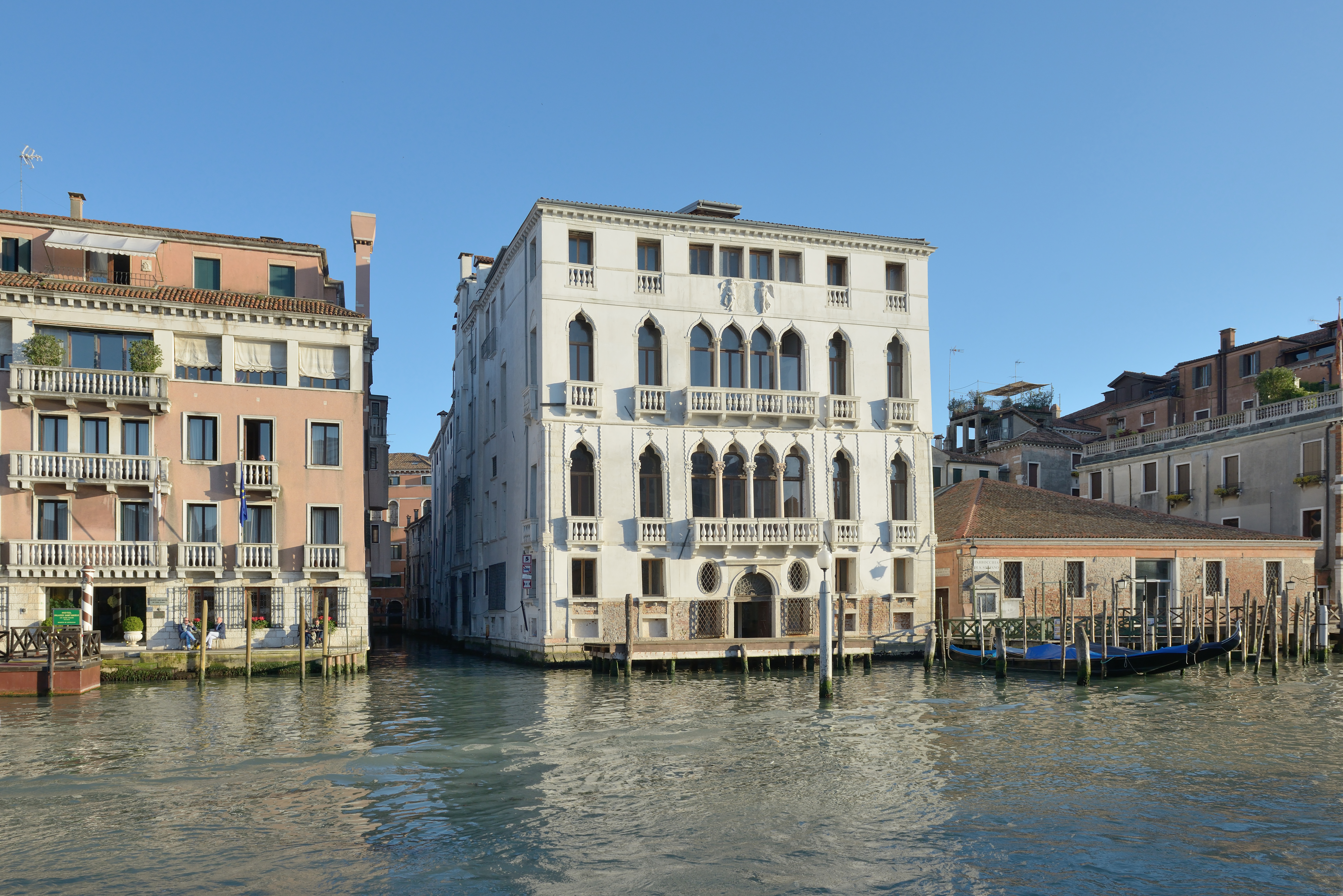 Palace Garzoni and Fondaco Marcello in Venice. Facade on Grand Canal.